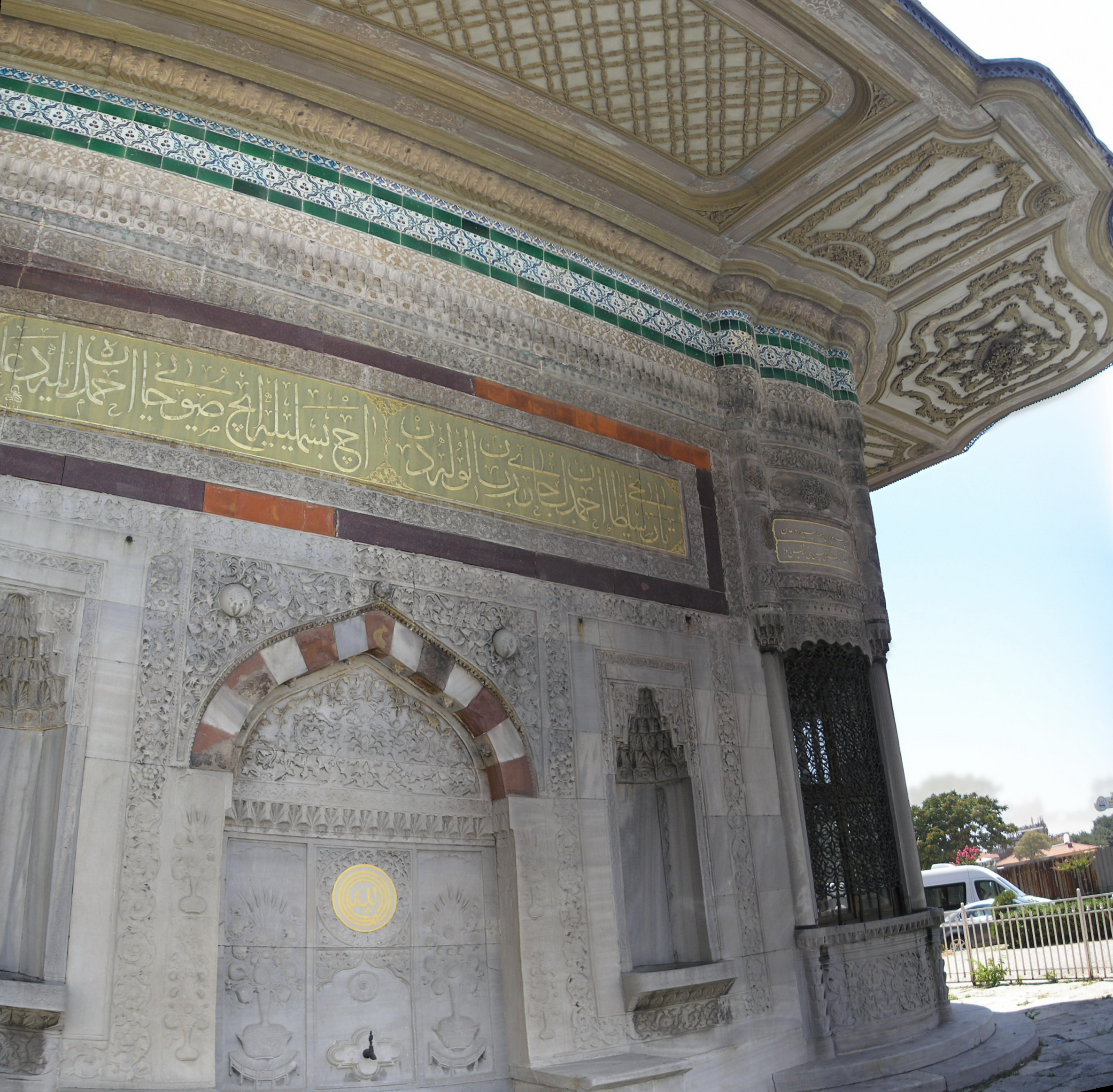 The Fountain of Ahmed III, located outside the Topkapi Palace.